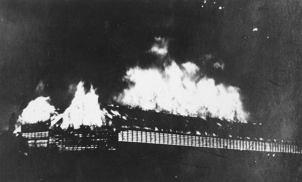 Fire at Millaquin Distillery, Bundaberg, Queensland, 1936 A large fire at the Millaquin Distillery in Bundaberg, 21 Nov. 1936. (Description supplied with photograph.) The photograph was taken at night.